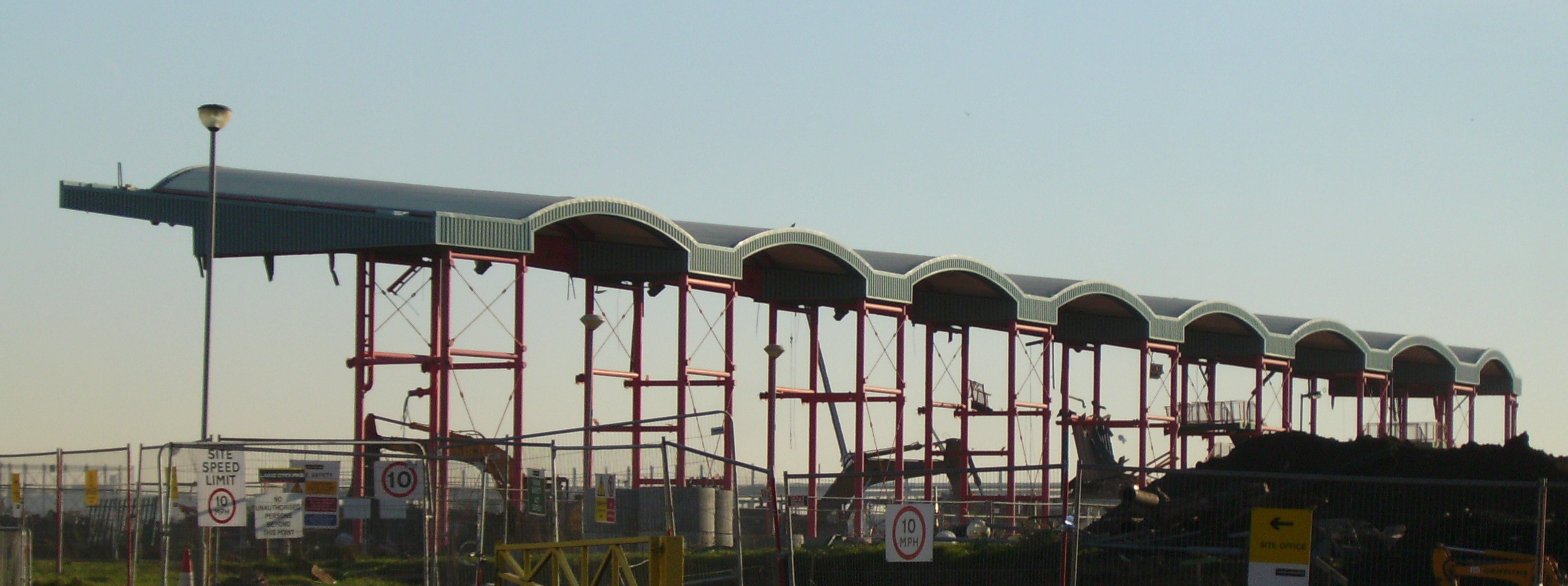 Demolish of the "Old" Leckwith Stadium, Cardiff, Wales